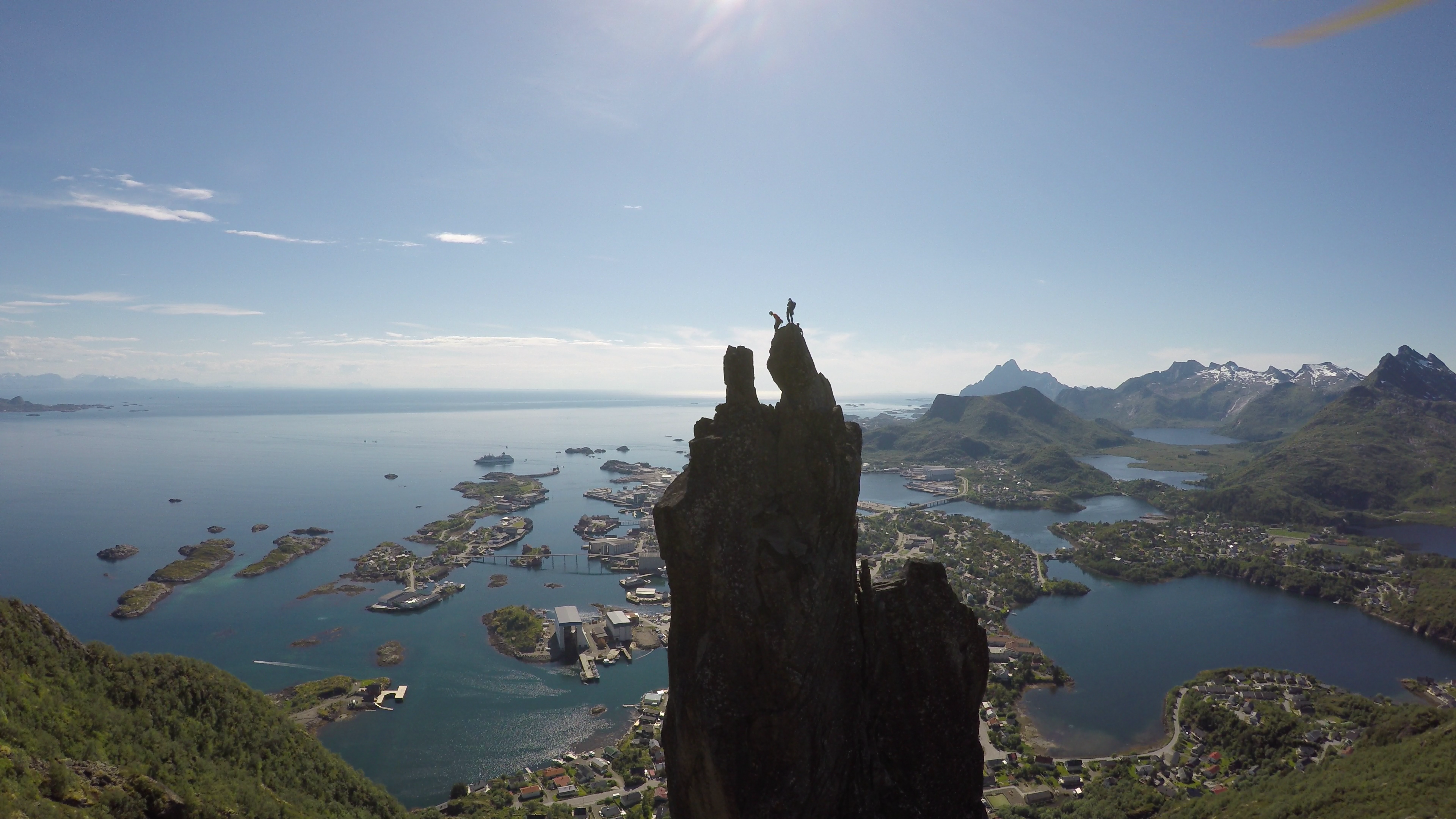 Svolværgeita in Svolvær, Lofoten, Norway